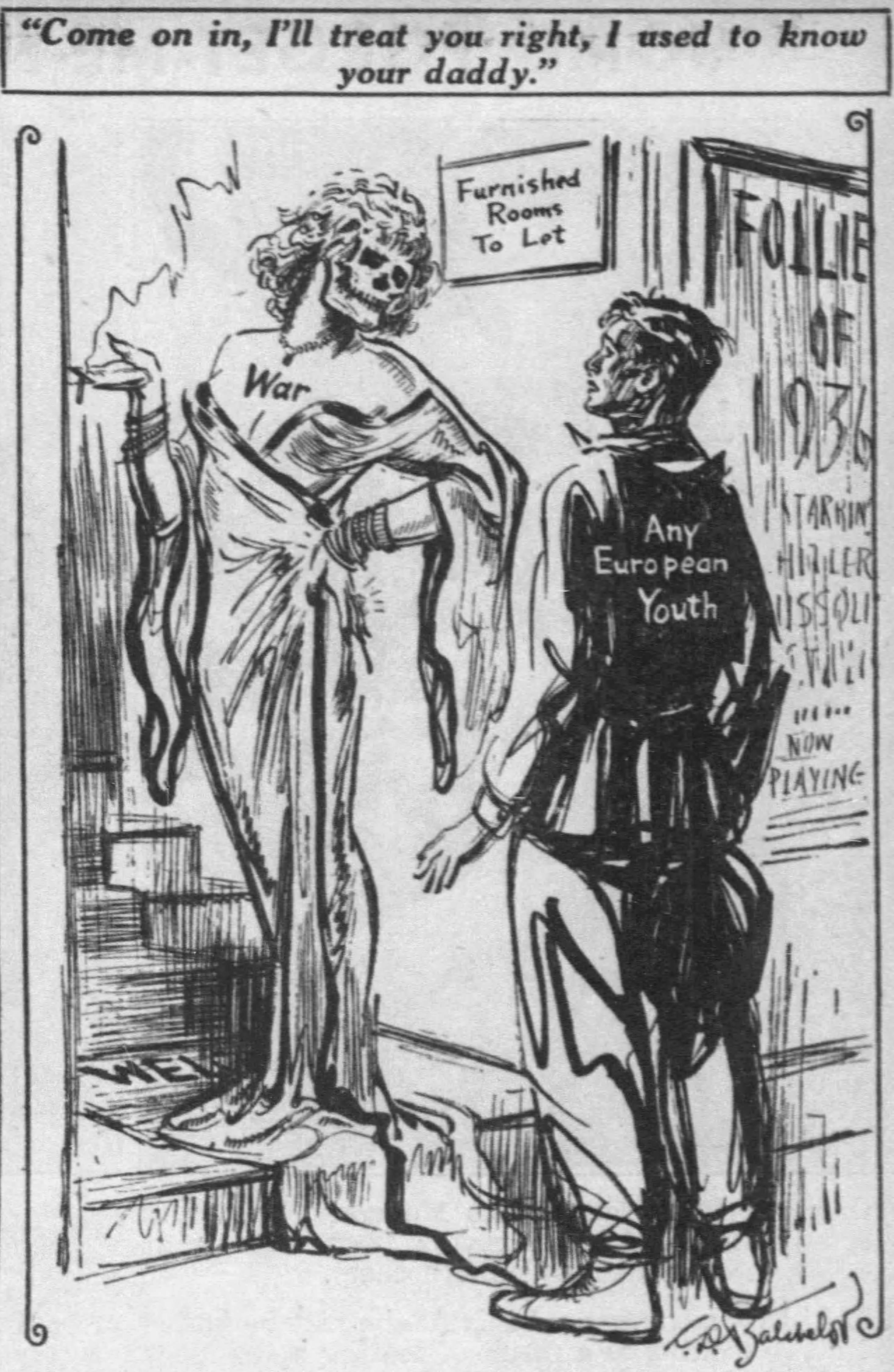 An editorial cartoon commenting on the events that would lead to World War II. Winner of the 1937 Pulitzer Prize for Editorial Cartooning.